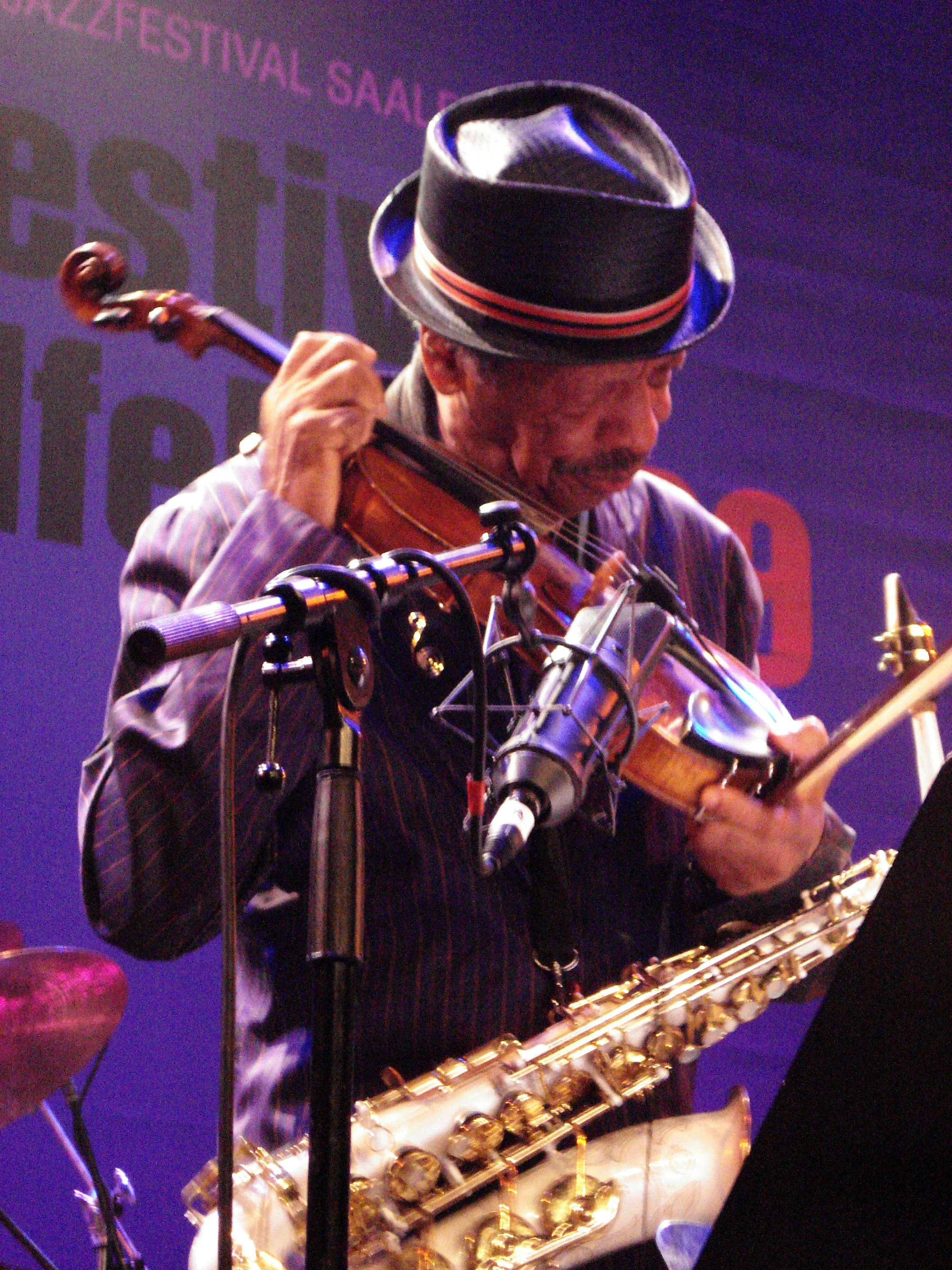 Ornette Coleman live at Saalfelden 2009